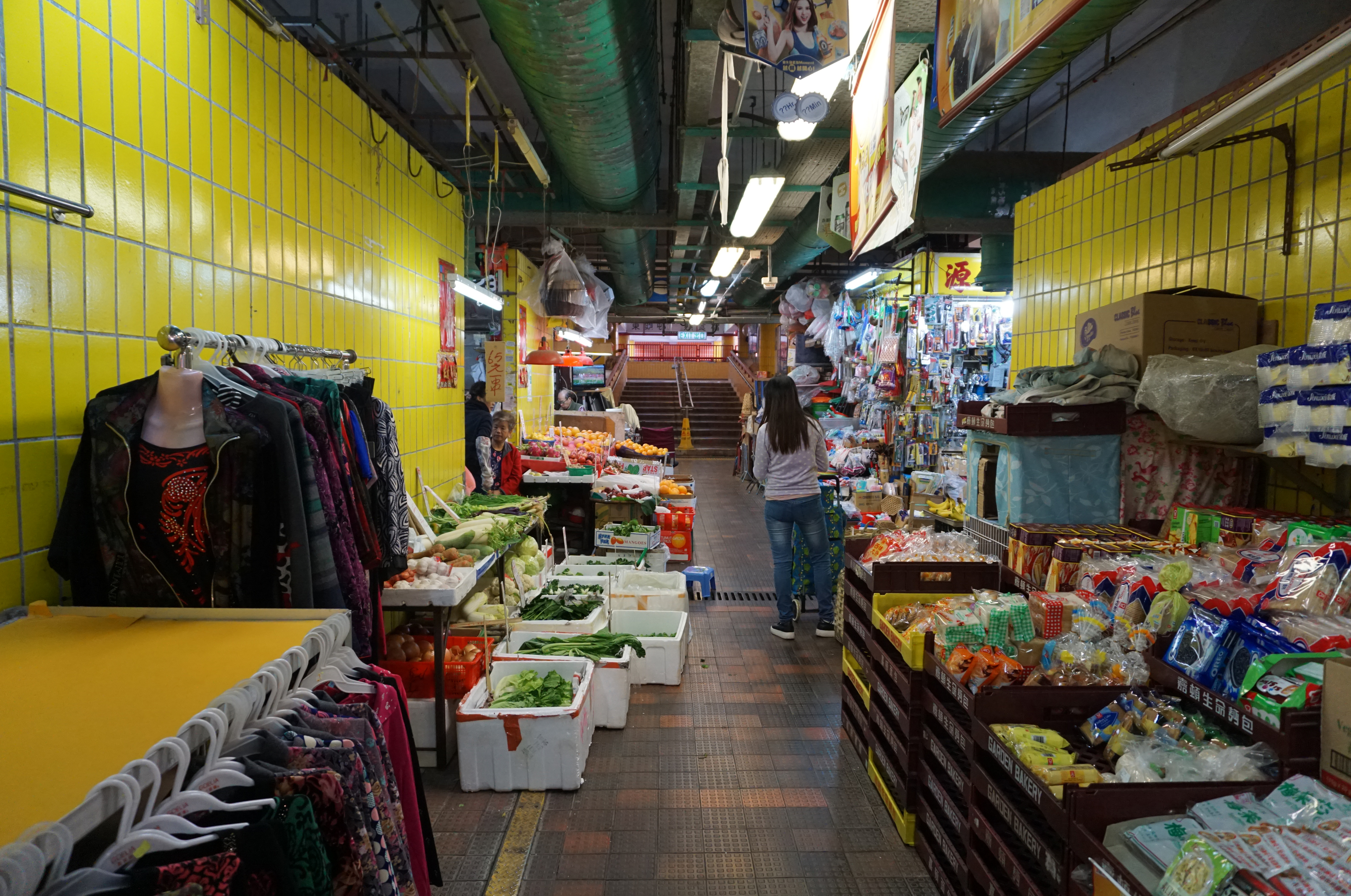 Tung Tau Market in Wong Tai Sin, Hong Kong.